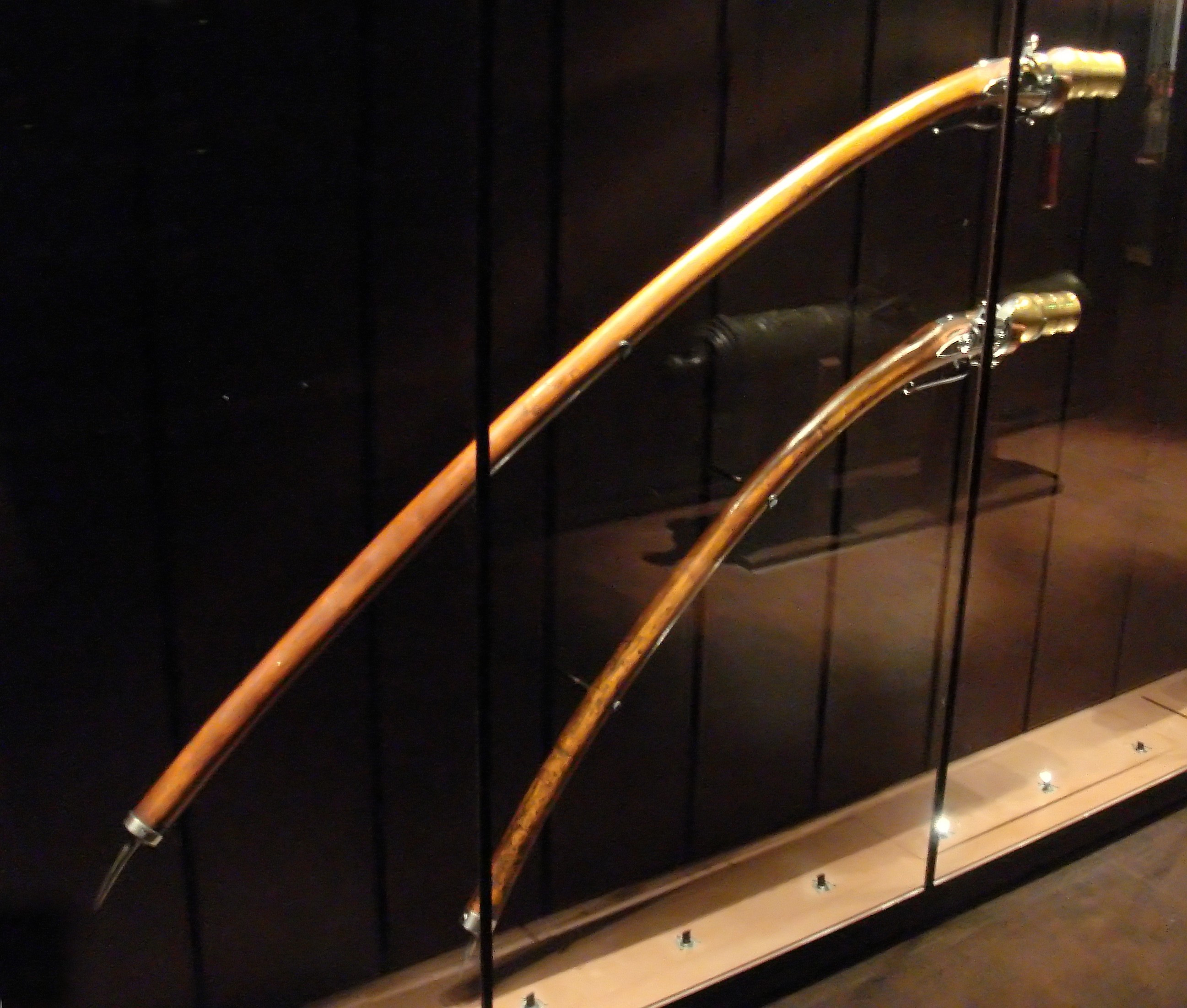 Grenade_launchers_1747_France